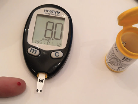 Illustration of the measurement principle of a handheld Self Monitoring of Blood Glucose (SMBG) meter, a.k.a glucometer. The system in use here is a Freestyle Freedom Lite from Abbott.